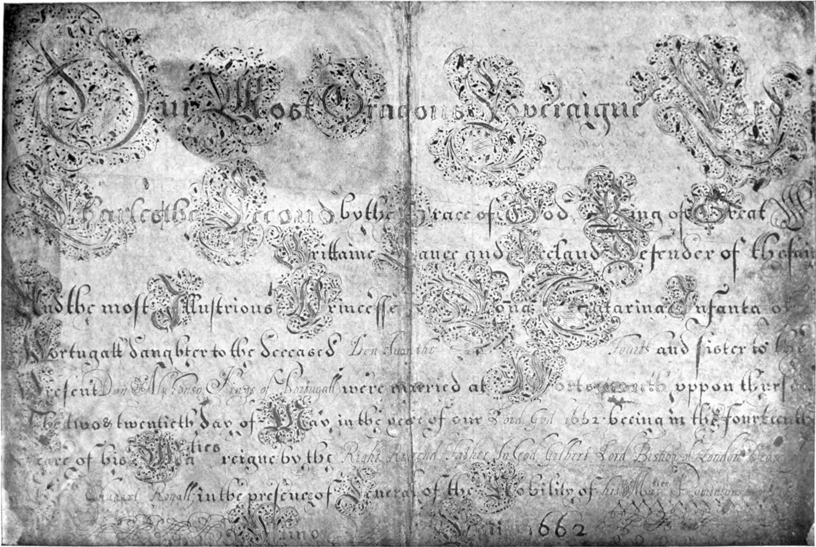 The Marriage Certificate of Charles II. and Catherine of Bragança. Reproduced by permission of the Rev. R. S. Medlicott.